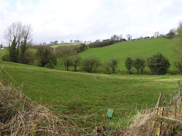 Salloon Townland It is a short distance to the north of Ballinamallard.